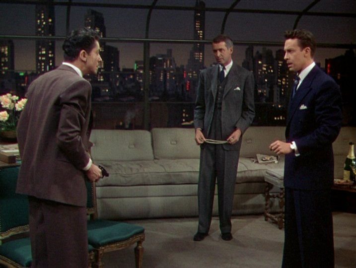 Cropped screenshot from the trailer for the film Rope